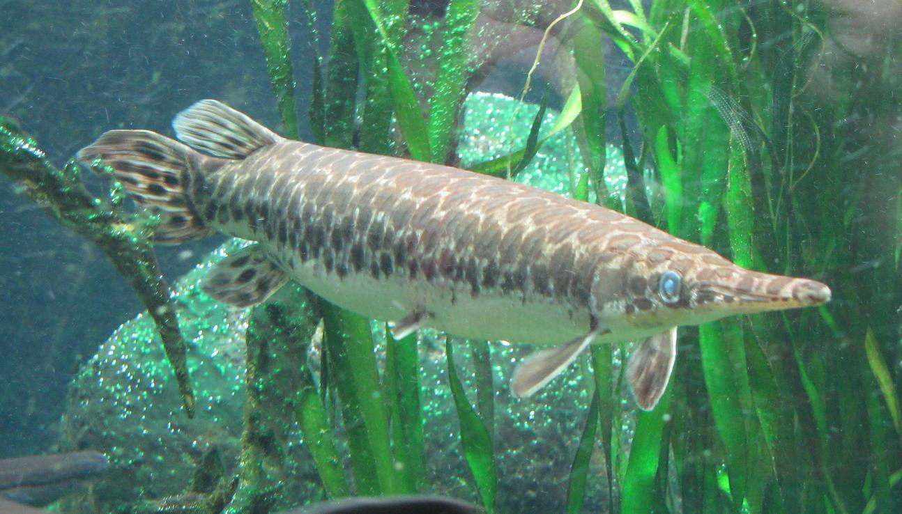 Lepisosteus oculatus